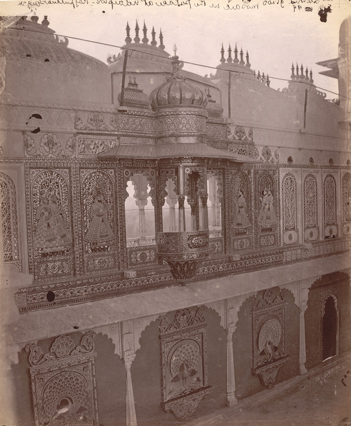 East range of the Mor Chowk, City Palace, Udaipur